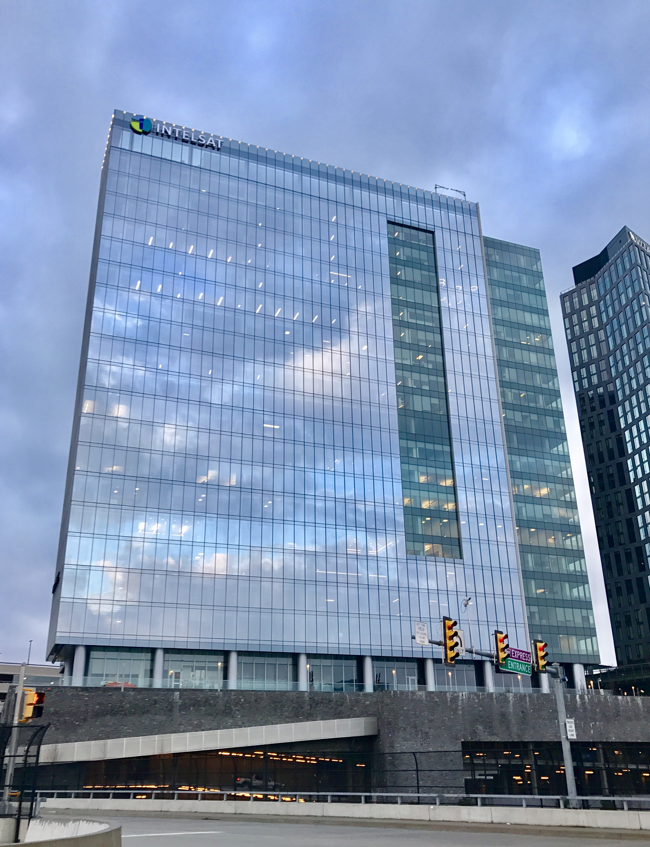 Tysons Tower is a 330-foot (100 m) high-rise office building, completed in 2014, in the Tysons Corner Center complex in Tysons, Virginia. Photographed from Westpark Drive on February 12, 2017 by Quercus montana